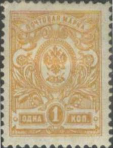 The eighteenth standard issue. Russian Imperial Eagle and Posthorns with Thunderbolts. 1k yellow